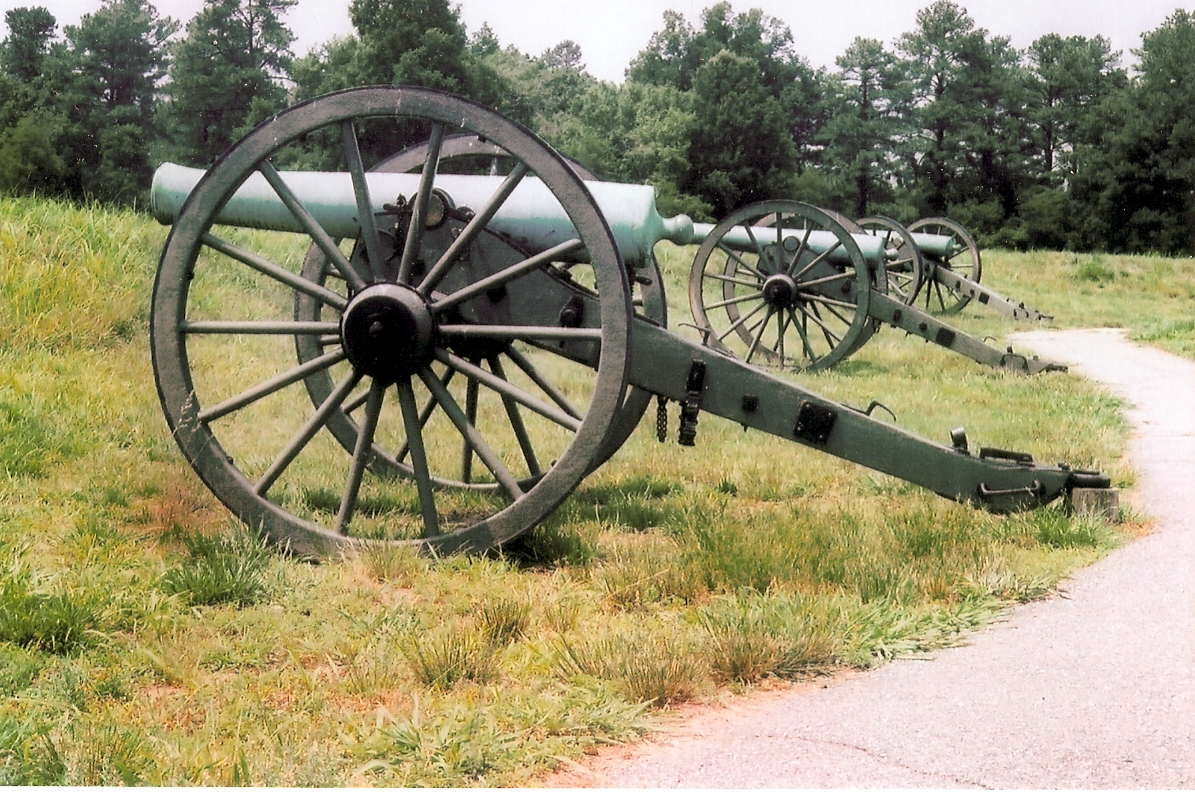 Cannons marking the location of Fort Stedman, Petersburg National Battlefield, Virginia, USA. The cannons are 12-pounder Confederate Napoleons.